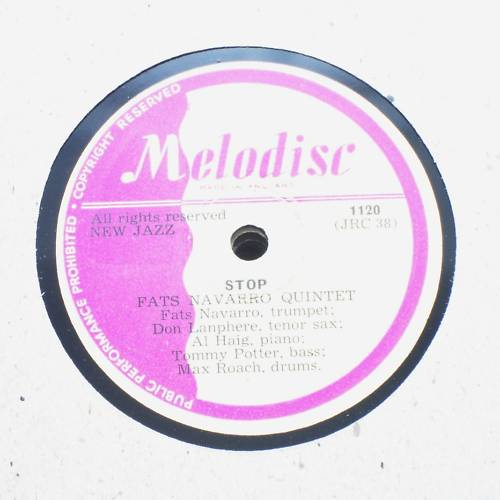 Stop (1949) by the Fats Navarro Quintet.